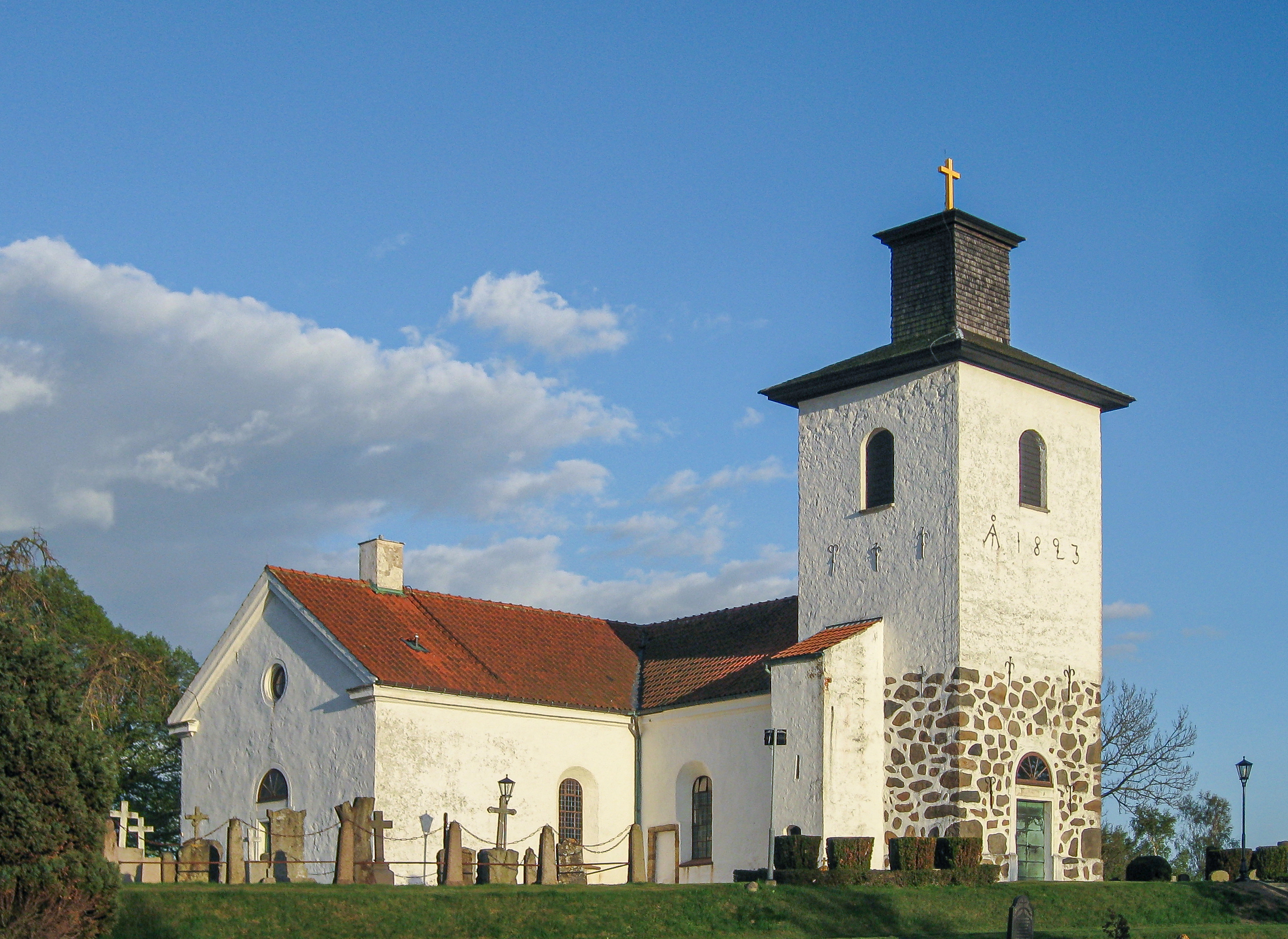 Kropp church in Skåne, Sweden